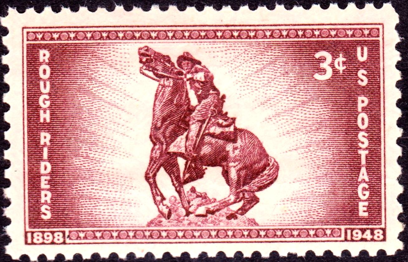 US Postage stamp, 3c, 1948 issue, Rough Riders, Teddy Roosevelt.